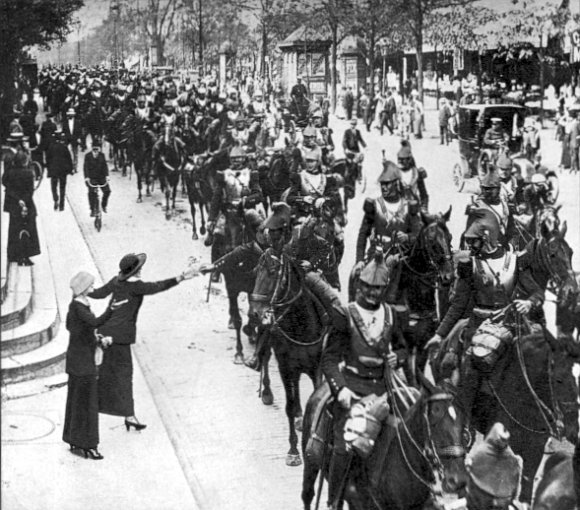 French Calvary going to front, Paris